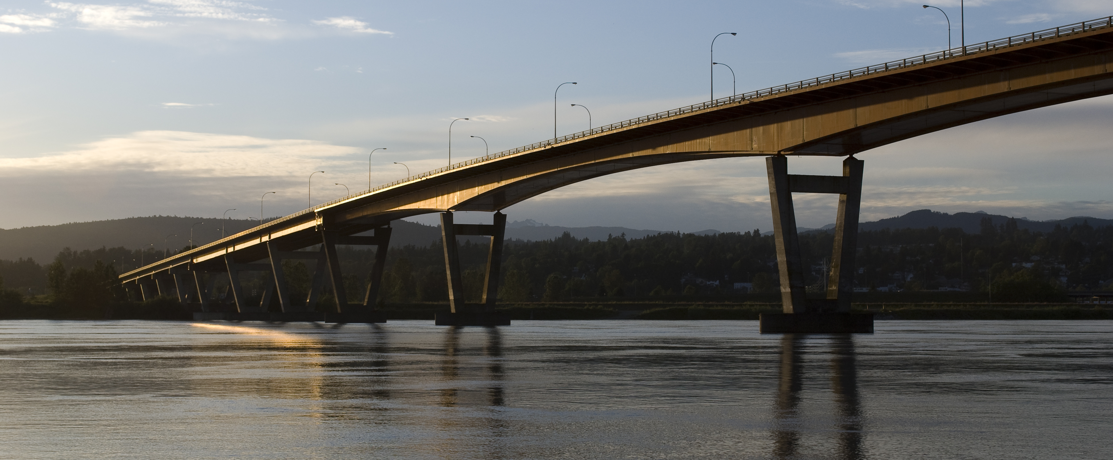 Mission Bridge spanning the Fraser River between Abbotsford and Mission, British Columbia.